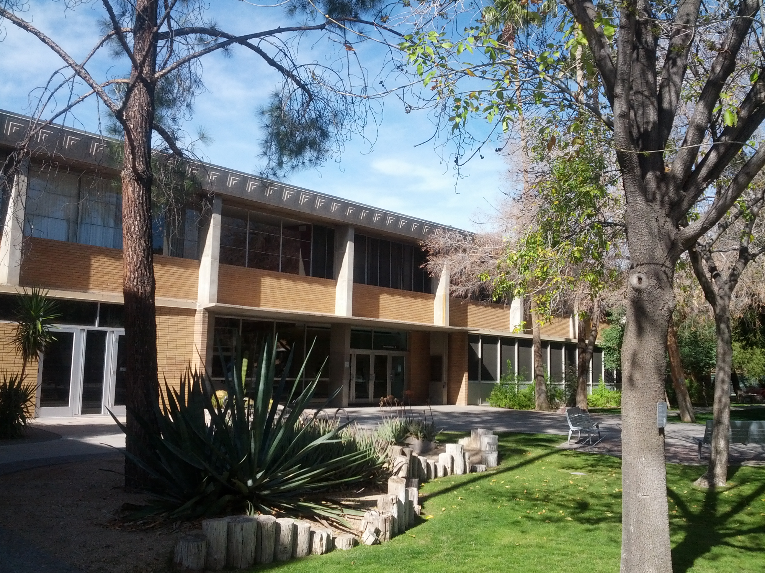 The east front of Interdisciplinary A (originally the Administration Building) at Arizona State University at the Tempe campus.